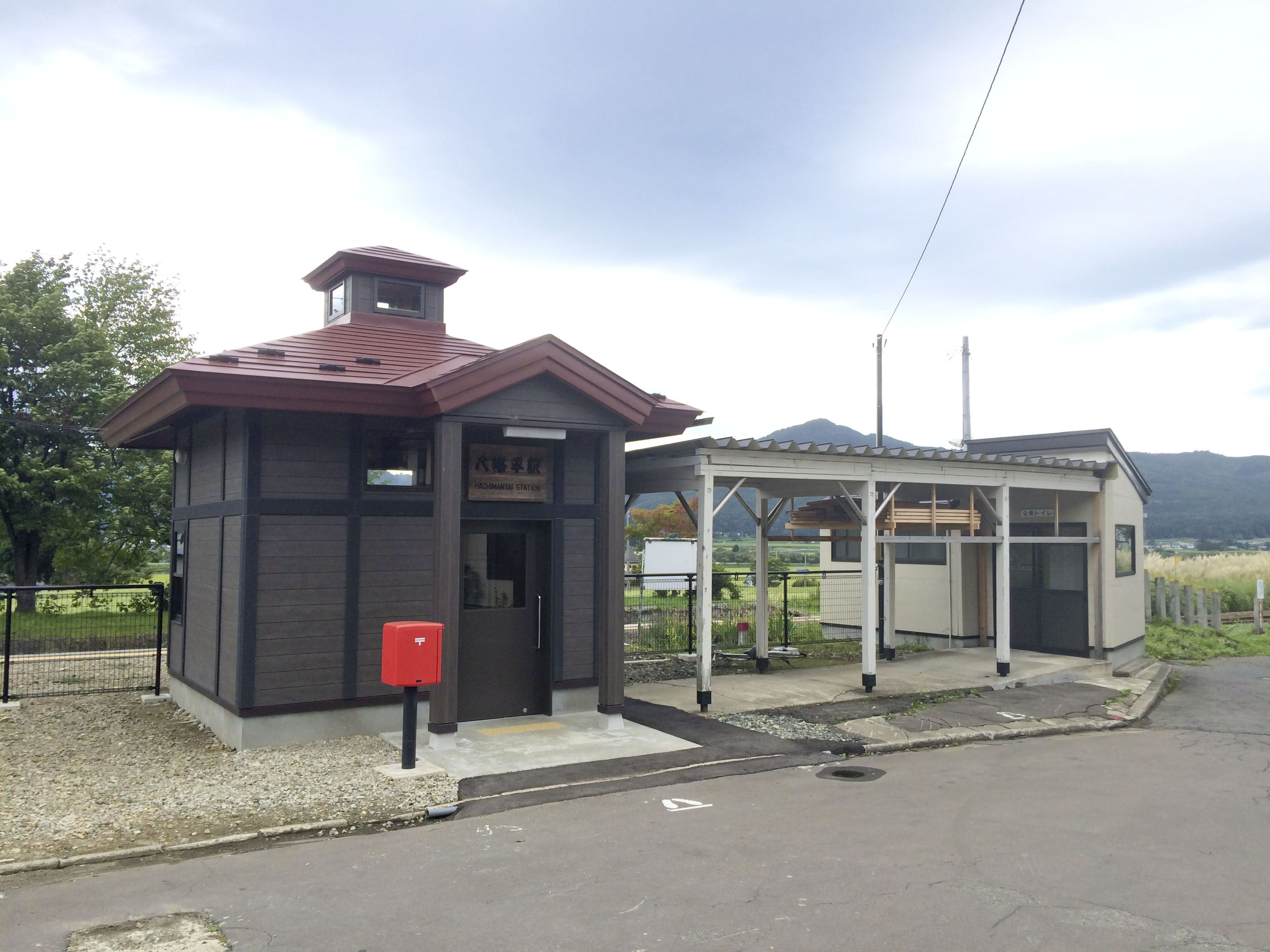 Hachimantai station. It belongs to Hanawa line, JR East. It is located in aza-Koyama ooaza-Hachimantai Kazuno-shi Akita Japan.